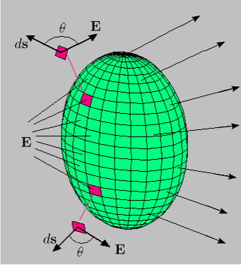 Modified designations of vectors